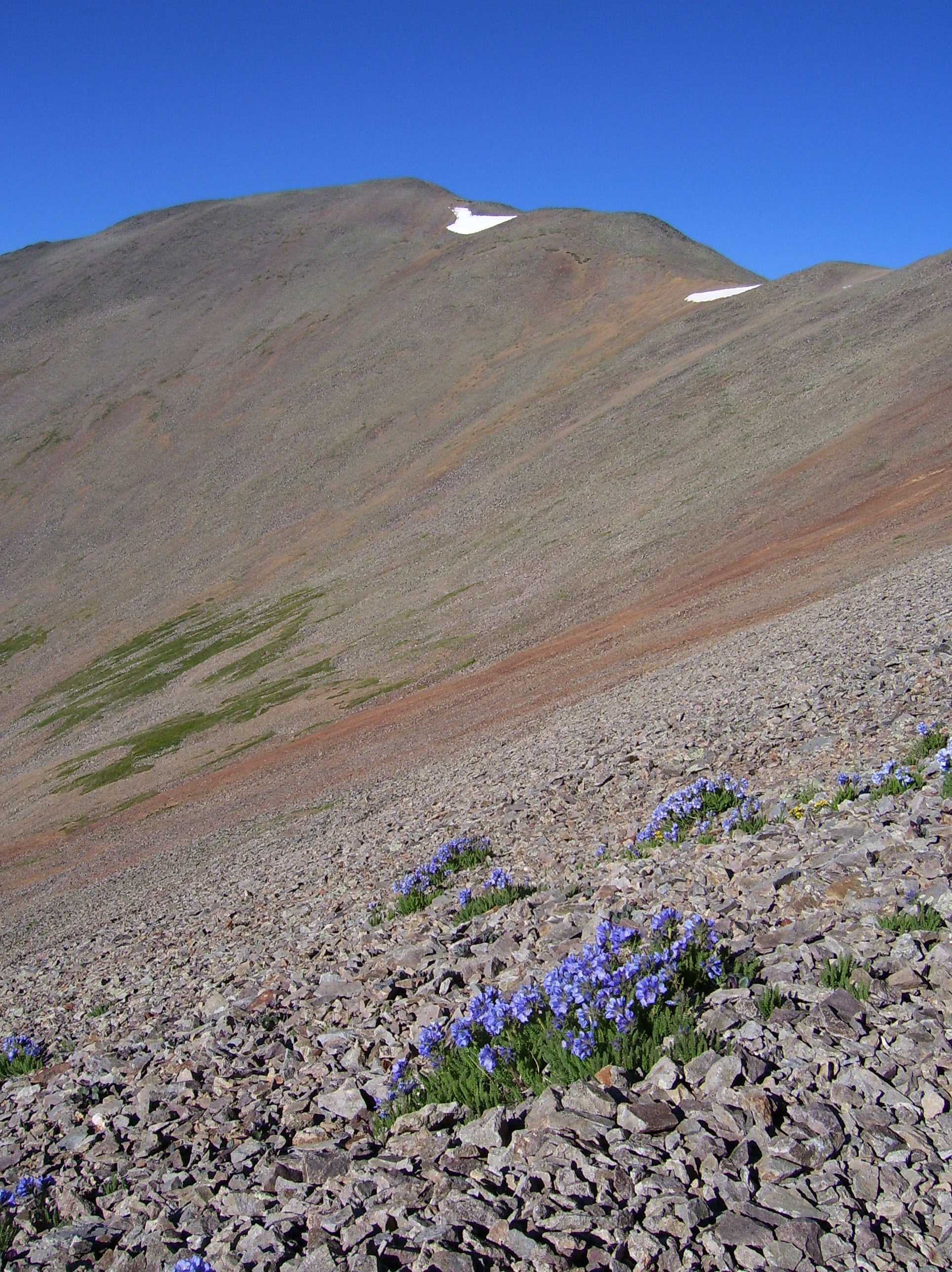 San Luis Peak as viewed from the north-northeast. At an elevation of 14,022-foot (4273.8 m), this is the highest summit in the La Garita Wilderness. In the foreground is sky pilot (Polemonium viscosum).